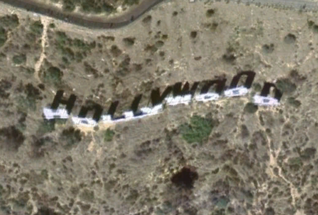 Satellite view of Hollywood Sign. USGS Urban Area Ortho layer